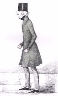 Detail from Modern Athenians (1847), Sir Charles Monteath, 1st Baronet, Scottish landowner.